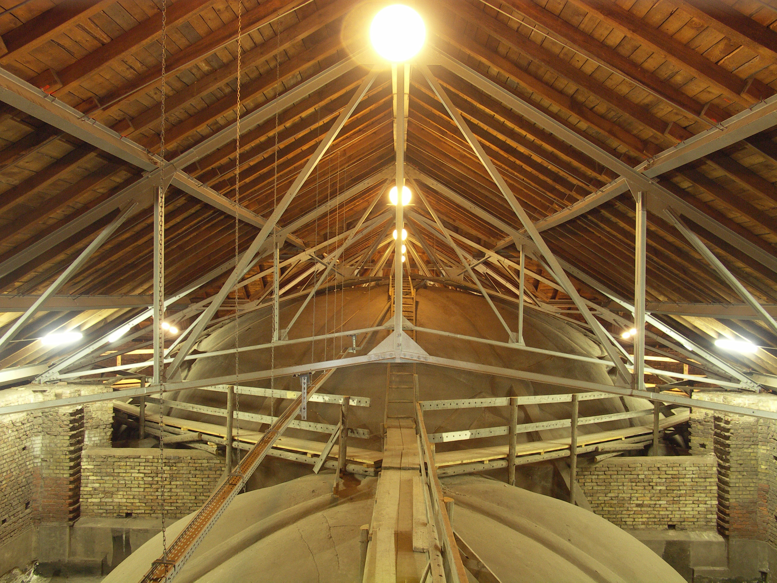 roof truss of Zionskirche in Berlin, northern view from inside tower towards apse